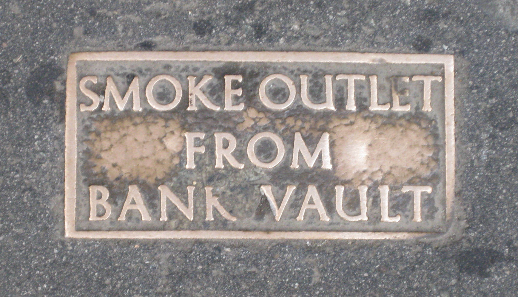 Frangible panel in pavement so that fire brigade can let smoke out of a basement. London